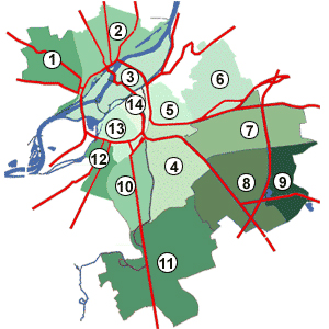 Scheme of the different administrative districts of Metz, France.